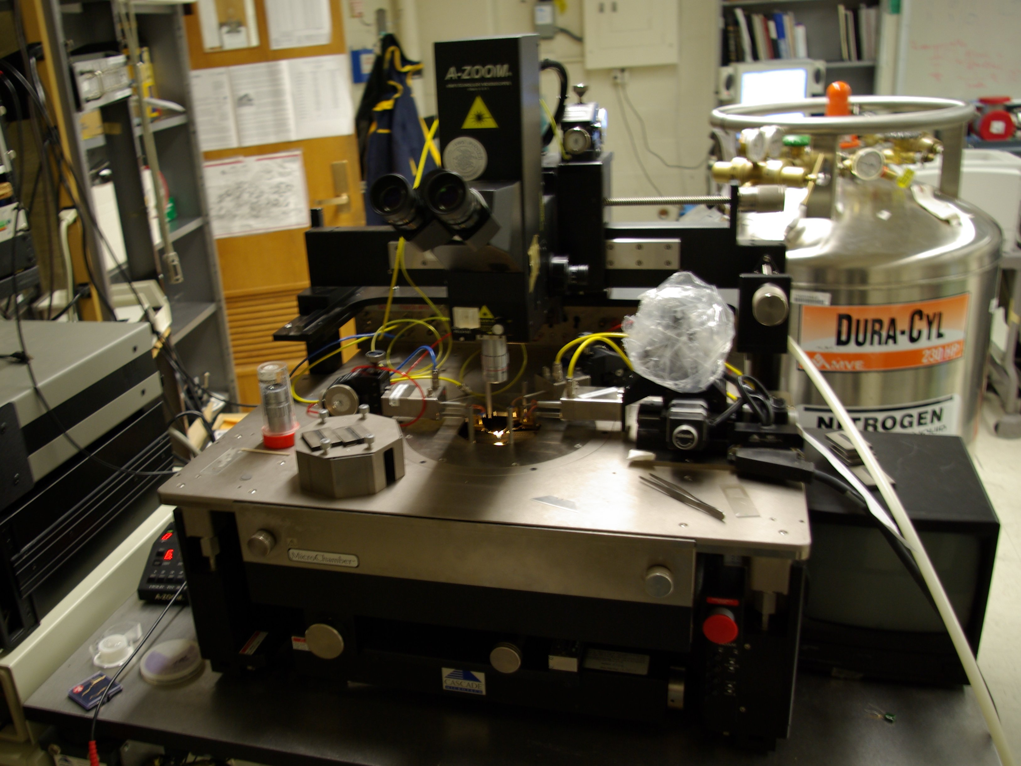 Cascade Microtech mechanical probe station on a floating table